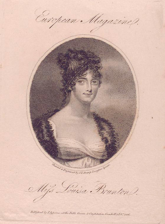 Portrait of Louisa Brunton (1785?–1860), English actress.